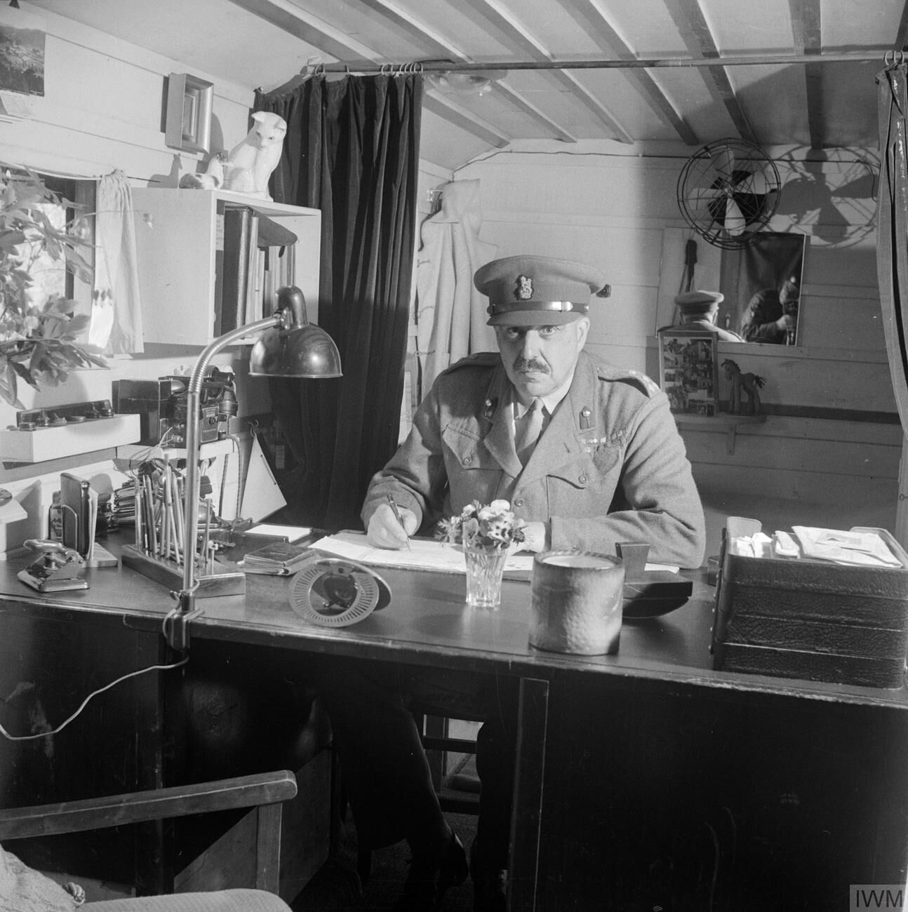 The Liberation of Bergen-belsen Concentration Camp, June 1945 The commander of the British relief effort at Belsen, Brigadier H L Glyn-Hughes CBE DSO MC, Deputy Director of Medical Services, Second Army, in his caravan..